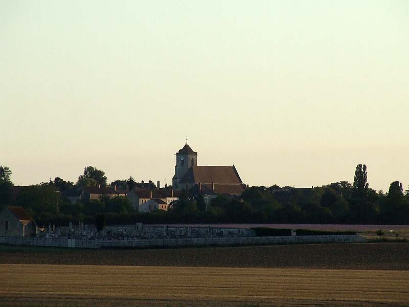 East side of the village of Étais-la-Sauvin. In the foreground the village cemetery.